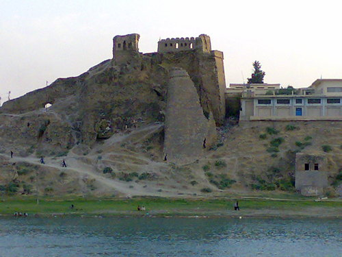 Bashtabia